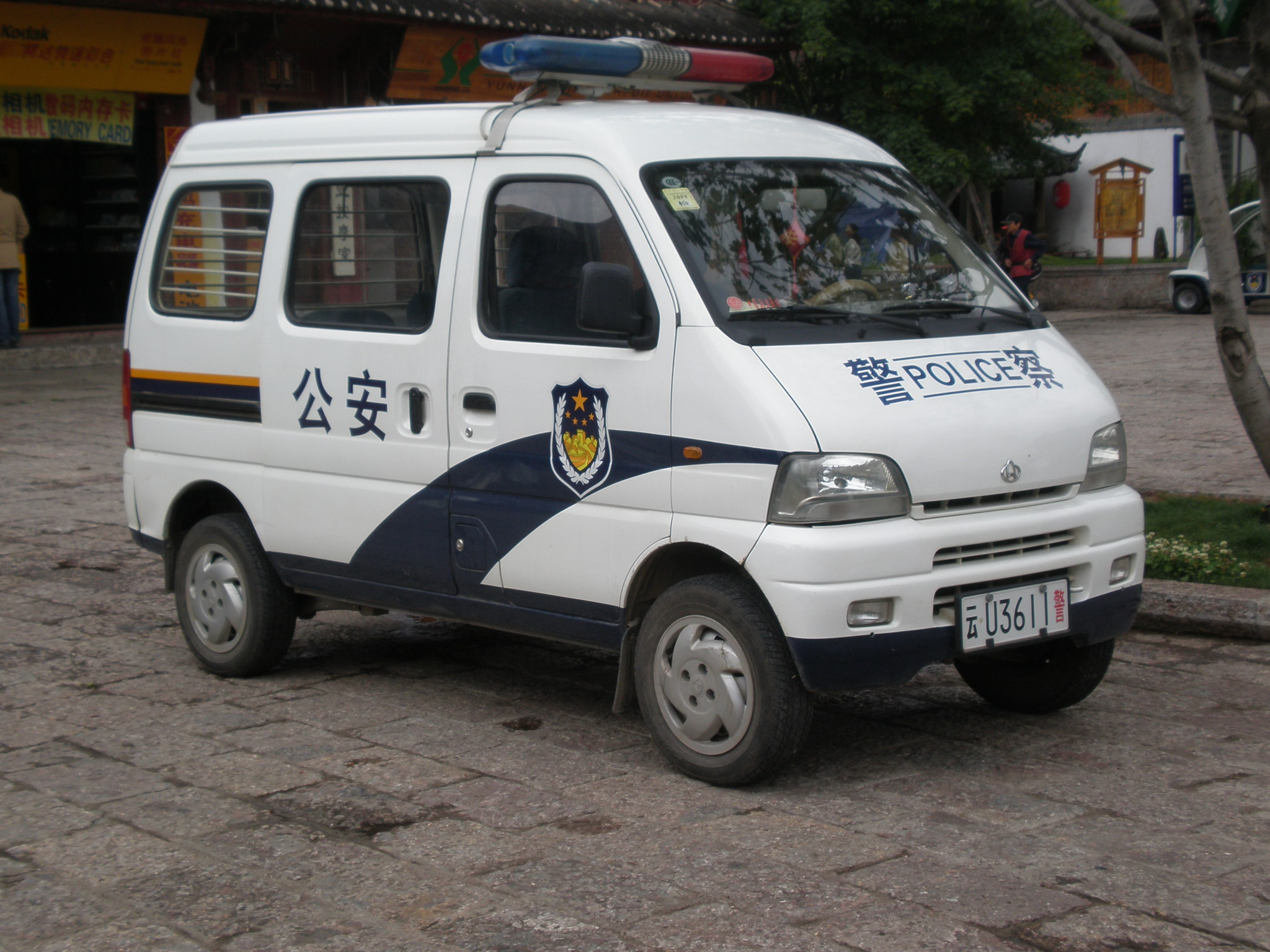 A police minivan in Yuhe Square in the Old Town of Lijiang, Yunnan.